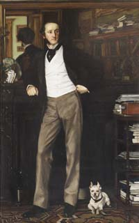 Chichester Parkinson-Fortescue, 1st Baron Carlingford (1823-1898)